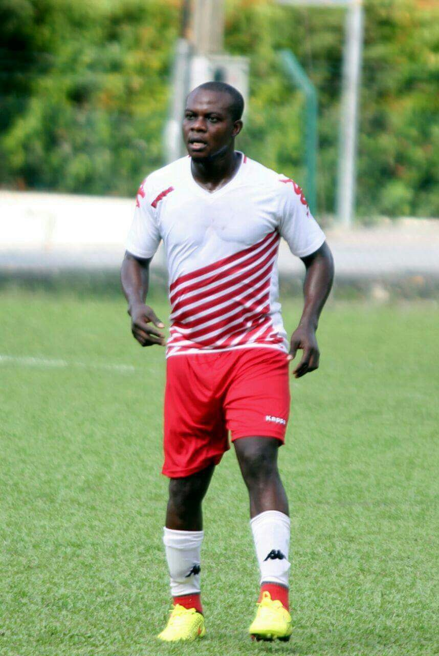 ibrahim madaki picture 1